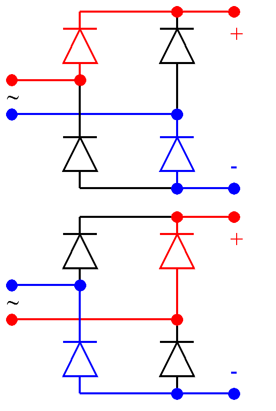 Illustration of full-wave rectification in the 4-diode bridge.